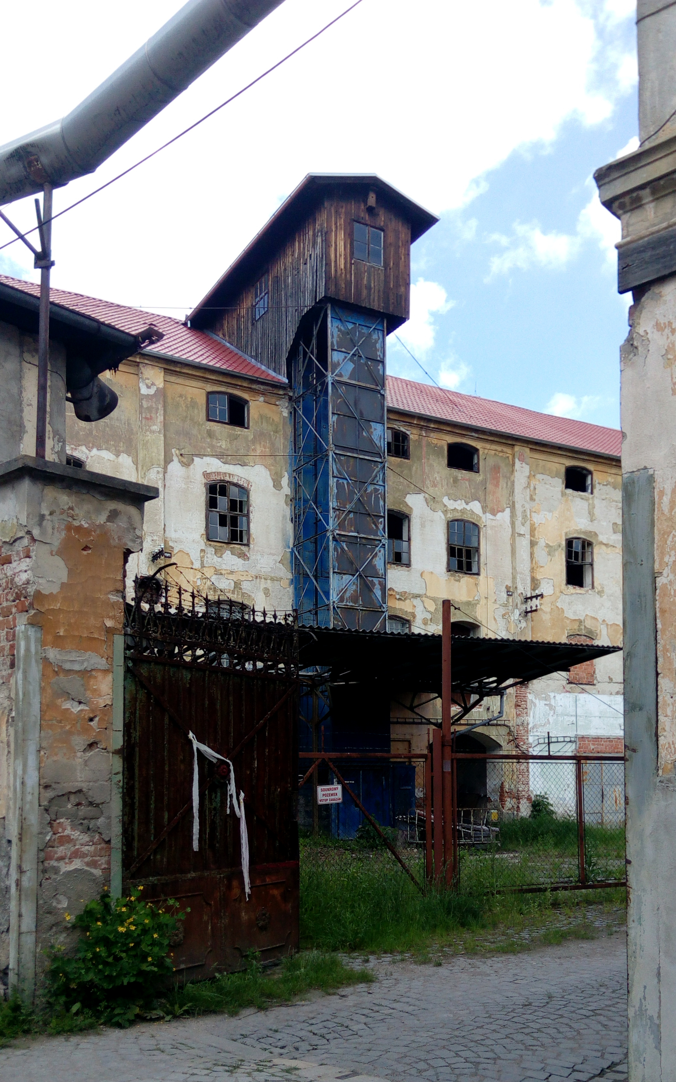 Buildings of Fezko, former fez manufacturer in the town of Strakonice, South Bohemian Region, Czech Republic